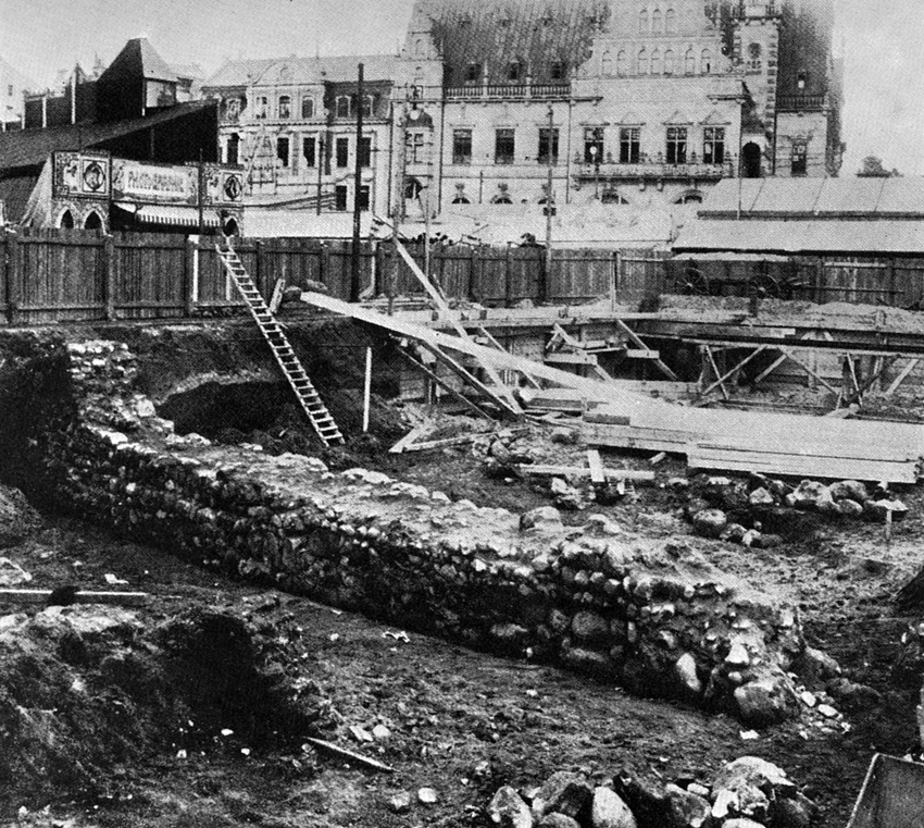 Remains of the fortification around the cathedral in Bremen, Germany, from the early 11th century, discovered during the demolition of the Stadthaus in the year 1909.